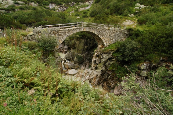 Bridge at Grimselpass